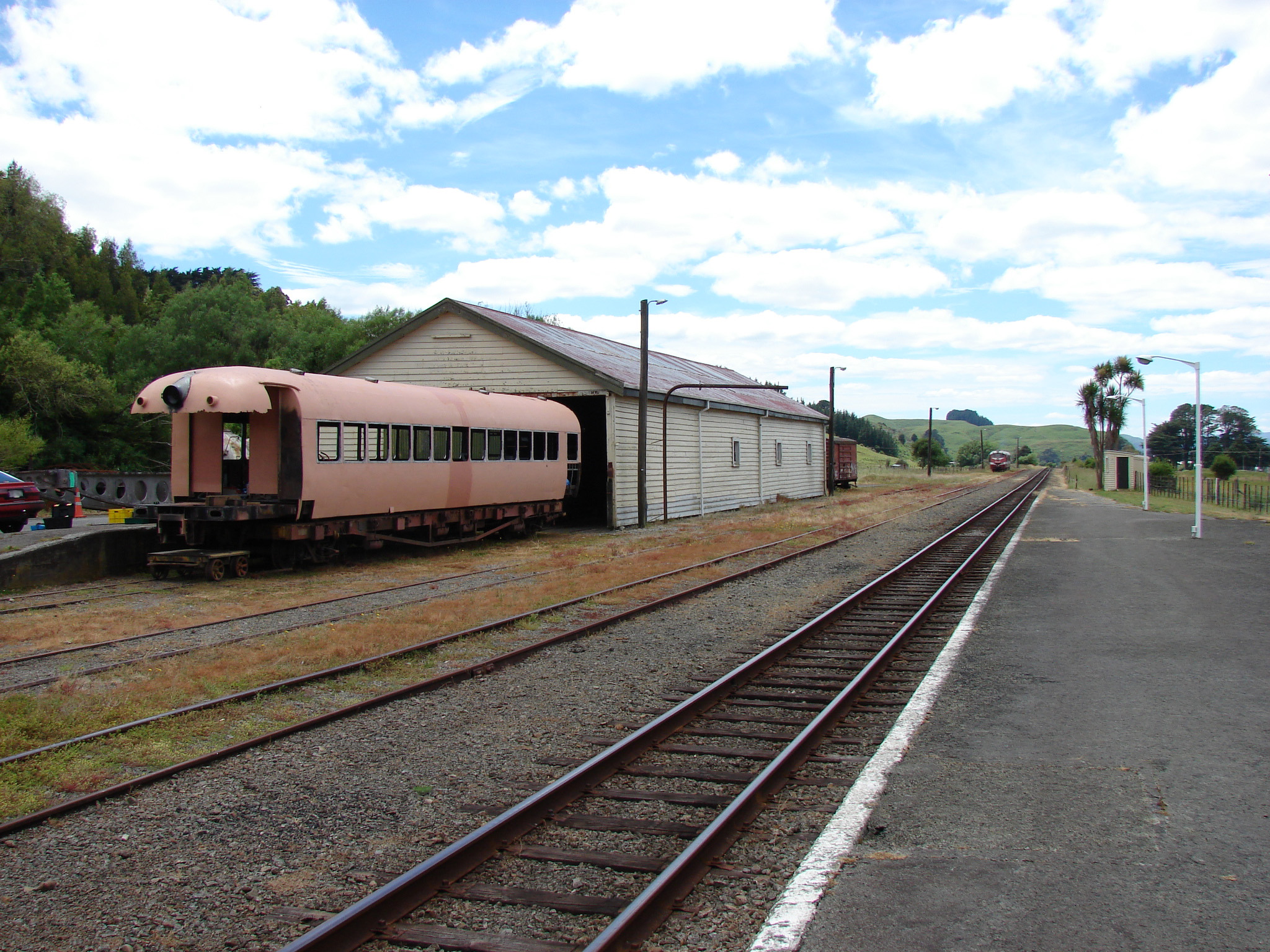 RM 133 being restored by the Pahiatua Railcar Society. This is the half that has been created by welding together RM 119 and RM 121 (notice the slight colour change in the middle where the join was made), and is shown here next to the loading bank outside the Pahiatua goods shed. Behind the loading bank is the Thames turntable, and in the distance can be seen RM 31 at the end of a siding. Photographed by Matthew25187 on en:2007-12-16.